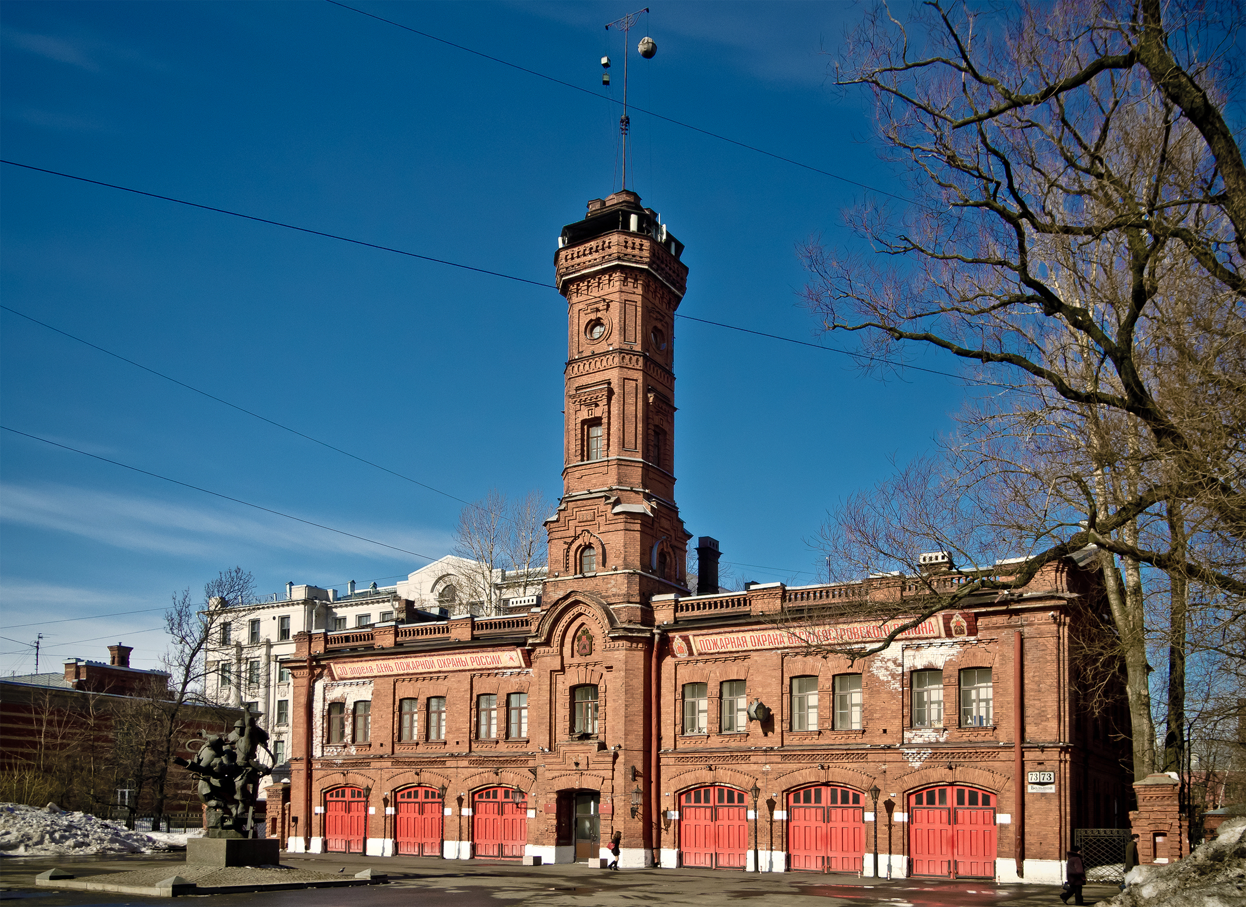 9th fire station of Vasilievsky Island of Saint Petersburg